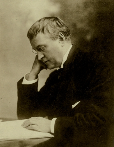 Henry Theophilus Finck, American music critic and writer.